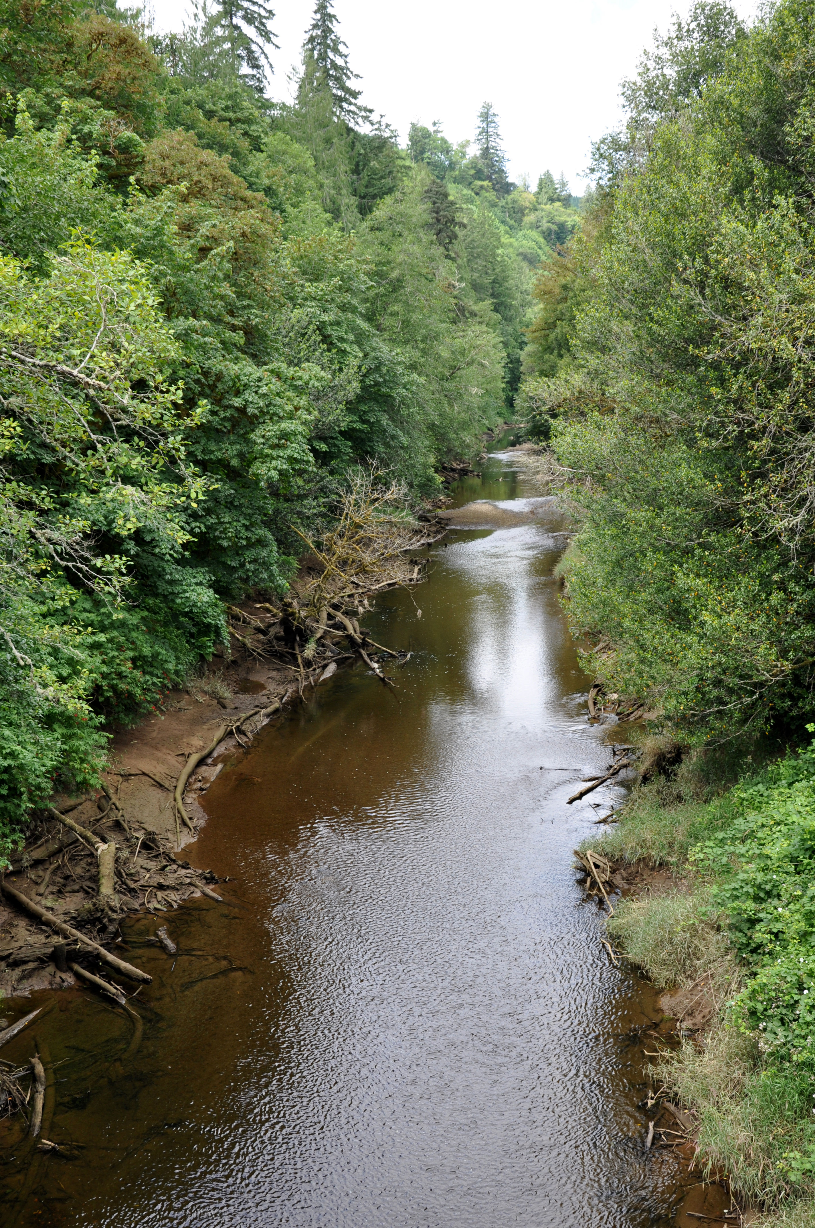 West Fork Millicoma River at Allegany in the U.S. state of Oregon. View is upstream from a bridge carrying Oregon Route 241.